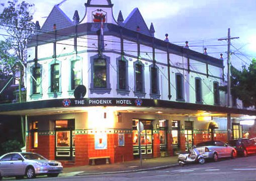 Phoenix Hotel, Woollahra, Sydney